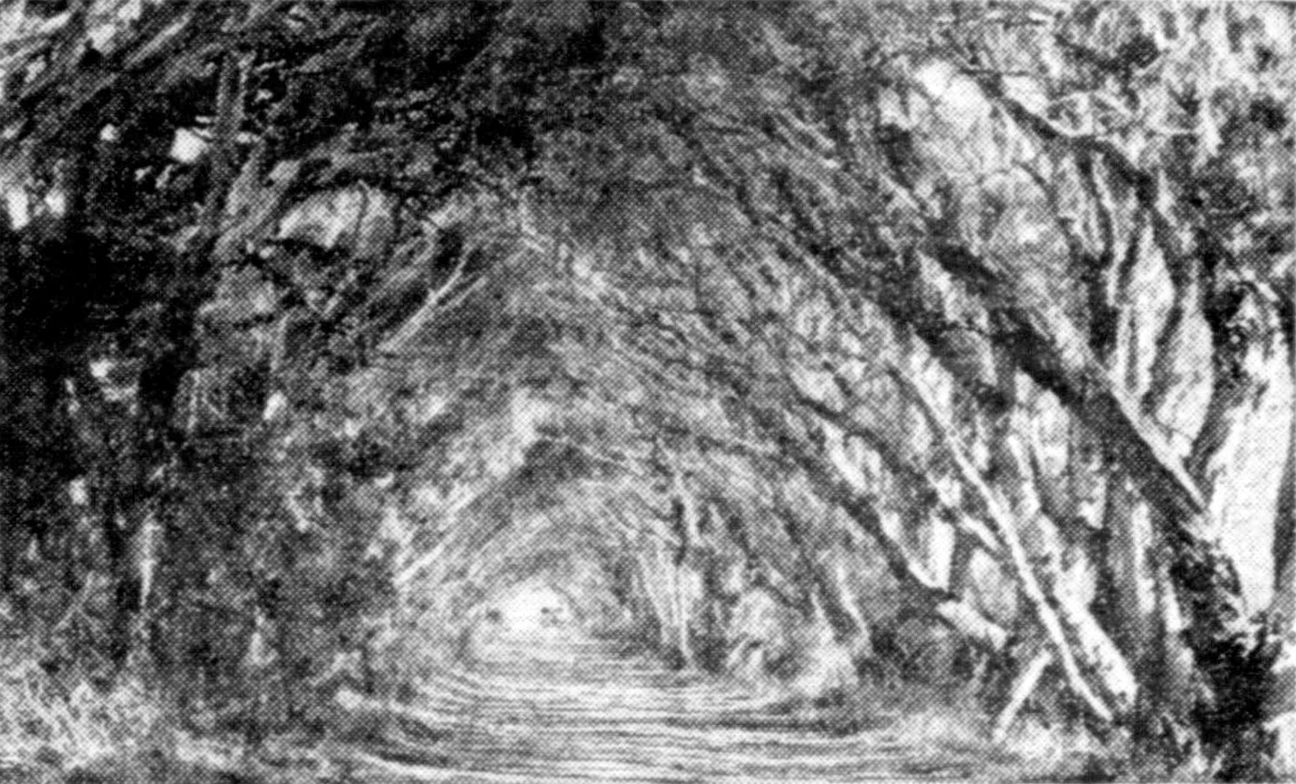 View along Old Coast Road in Western Australia in 1936, under an "arch" of paperbarks. Original caption: Paperbark arch on the old coast road